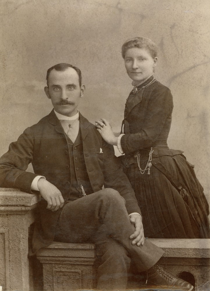 Portrait of Edward Lucas (Australian politician) and his wife Mabel.